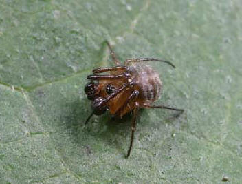 male Wendilgarda sp. from Okinawa.